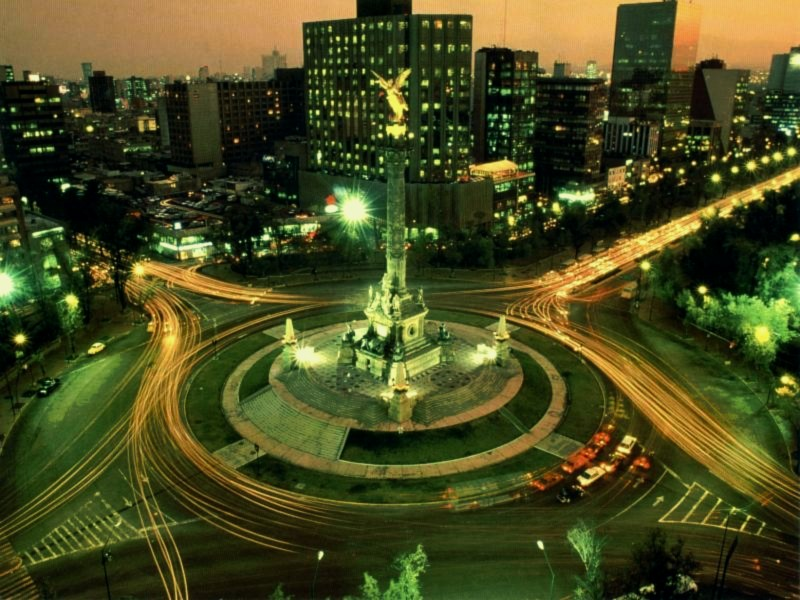 Uploaded with no description at en.wp